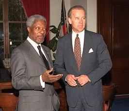 Senator Biden met with United Nations Secretary-General Kofi Annan on March 11, 1998, to discuss developments in Iraq and the payment of U.S. arrears to the U.N.